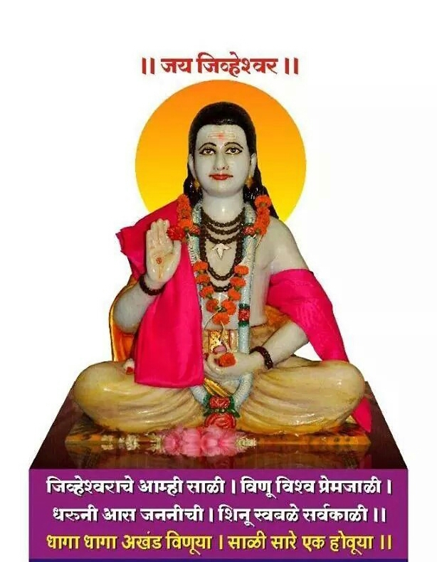 वेदमूर्ती श्री जिव्हेश्वर भगवान